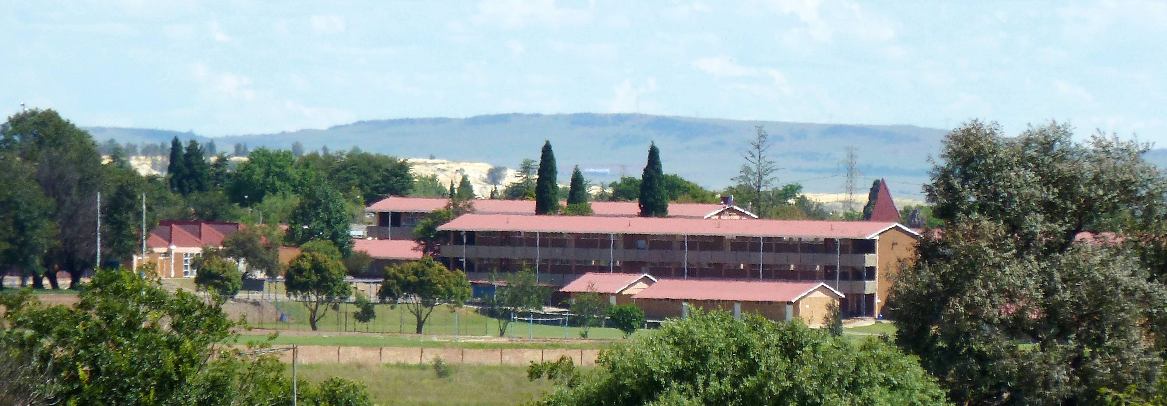 Bastion High School in Roodepoort, Gauteng, South Africa